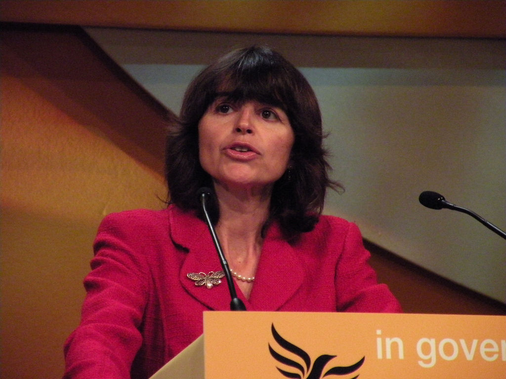 Kathryn Parminter, Baroness Parminter addressing the 2011 Liberal Democrats autumn conference in the International Convention Centre, Birmingham